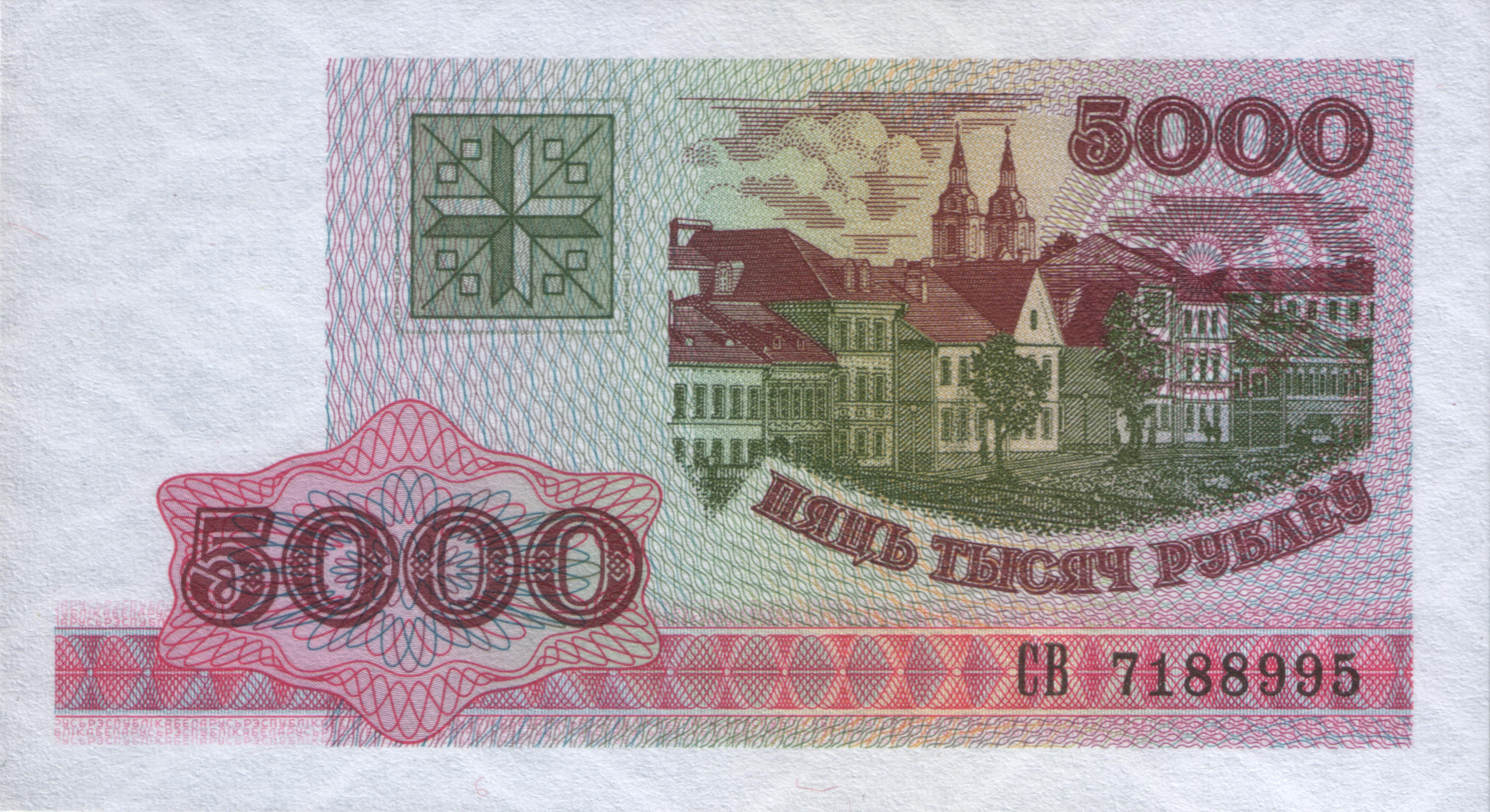 5000 roubles of Belarus (1998)